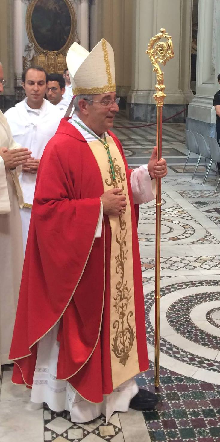 Photo of Angelo De Donatis holding pastoral staff